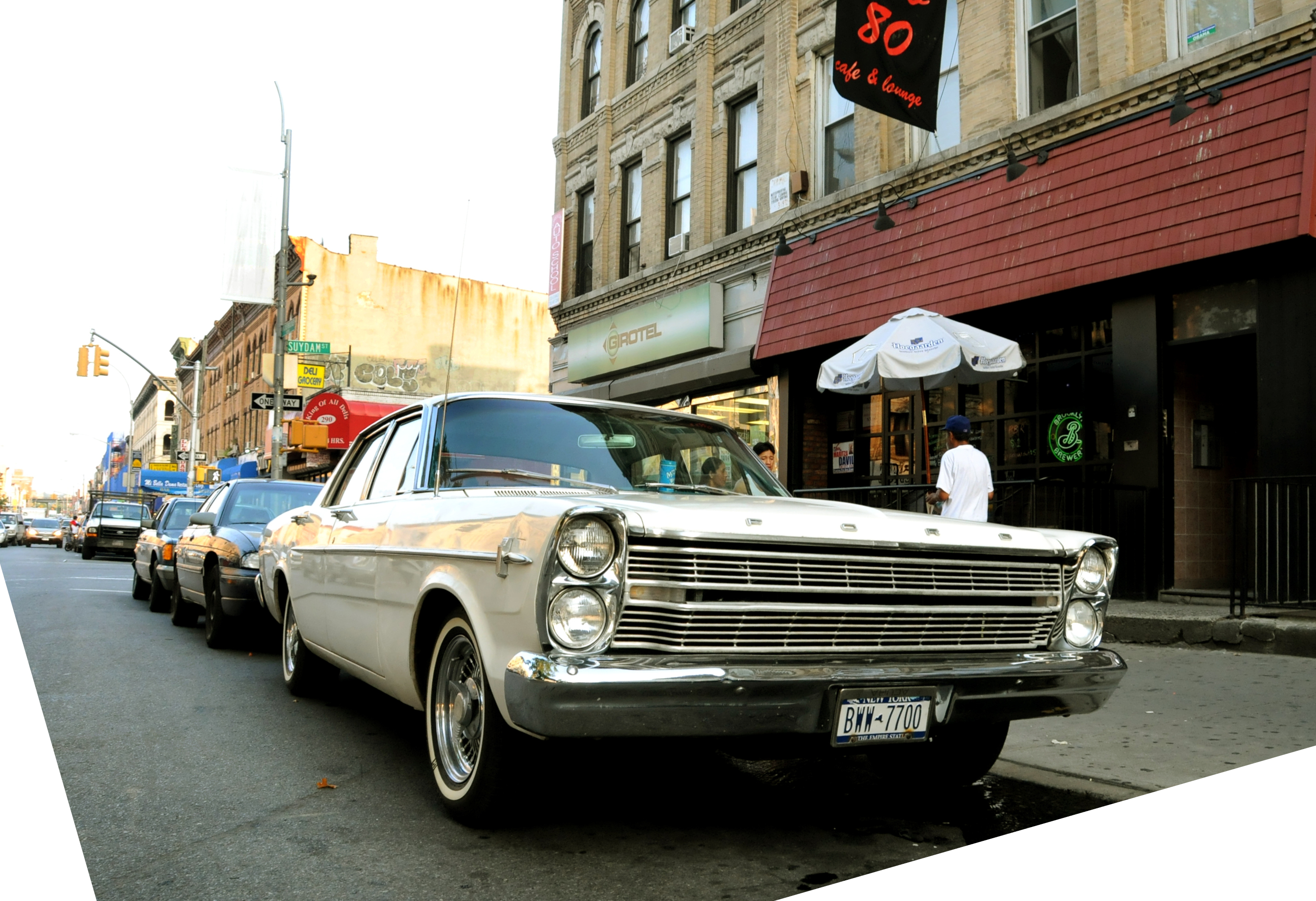 1966 Ford Custom 500. Corresponding article available here